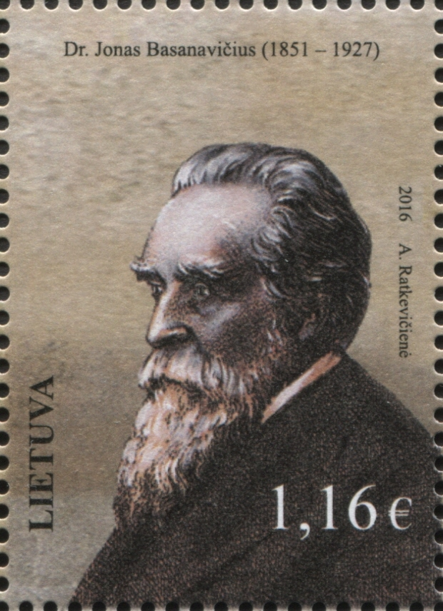 100th Anniversary of Restoration of Lithuanian Independence - Jonas Basanavičius